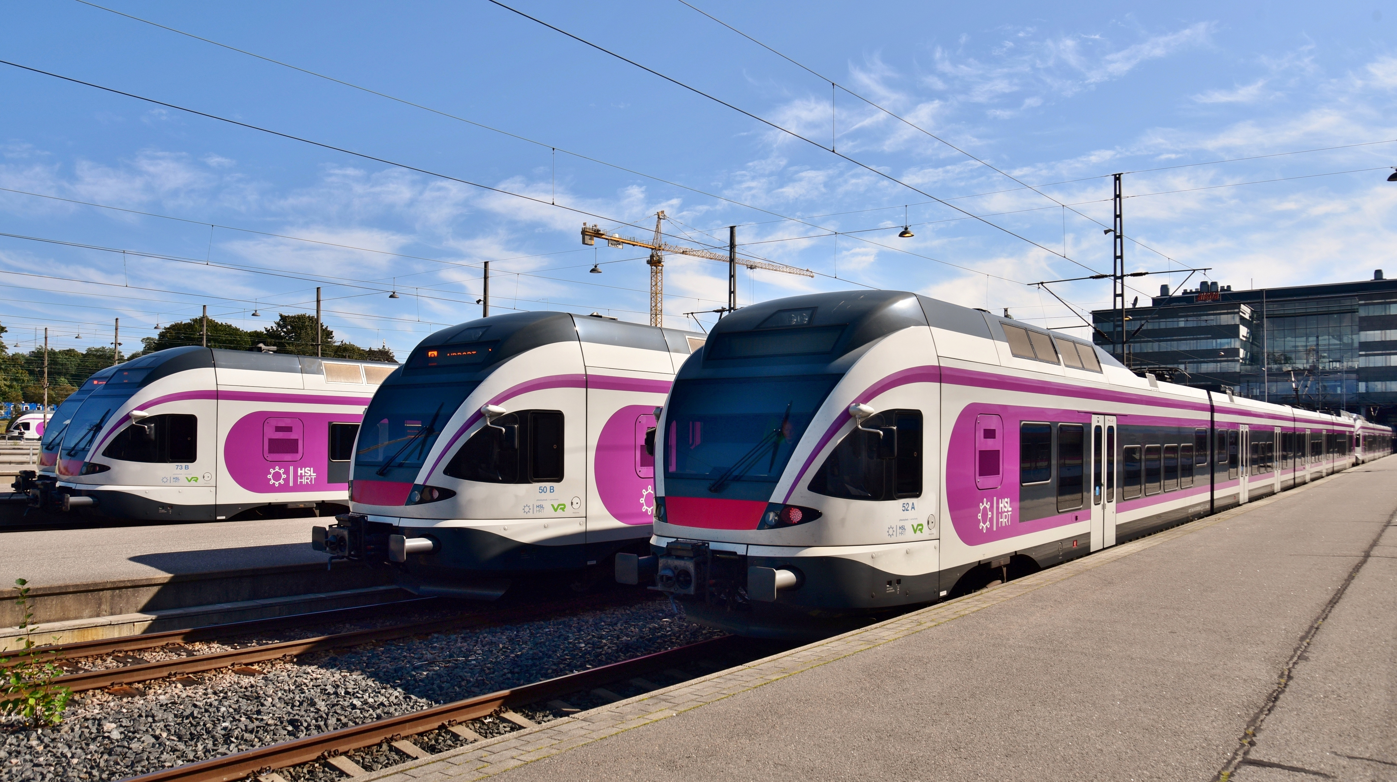 View of a trio of HKL HST Class Sm5 multiple units at Helsinki Central Station (L–R): unit nos 73, 50 and 52